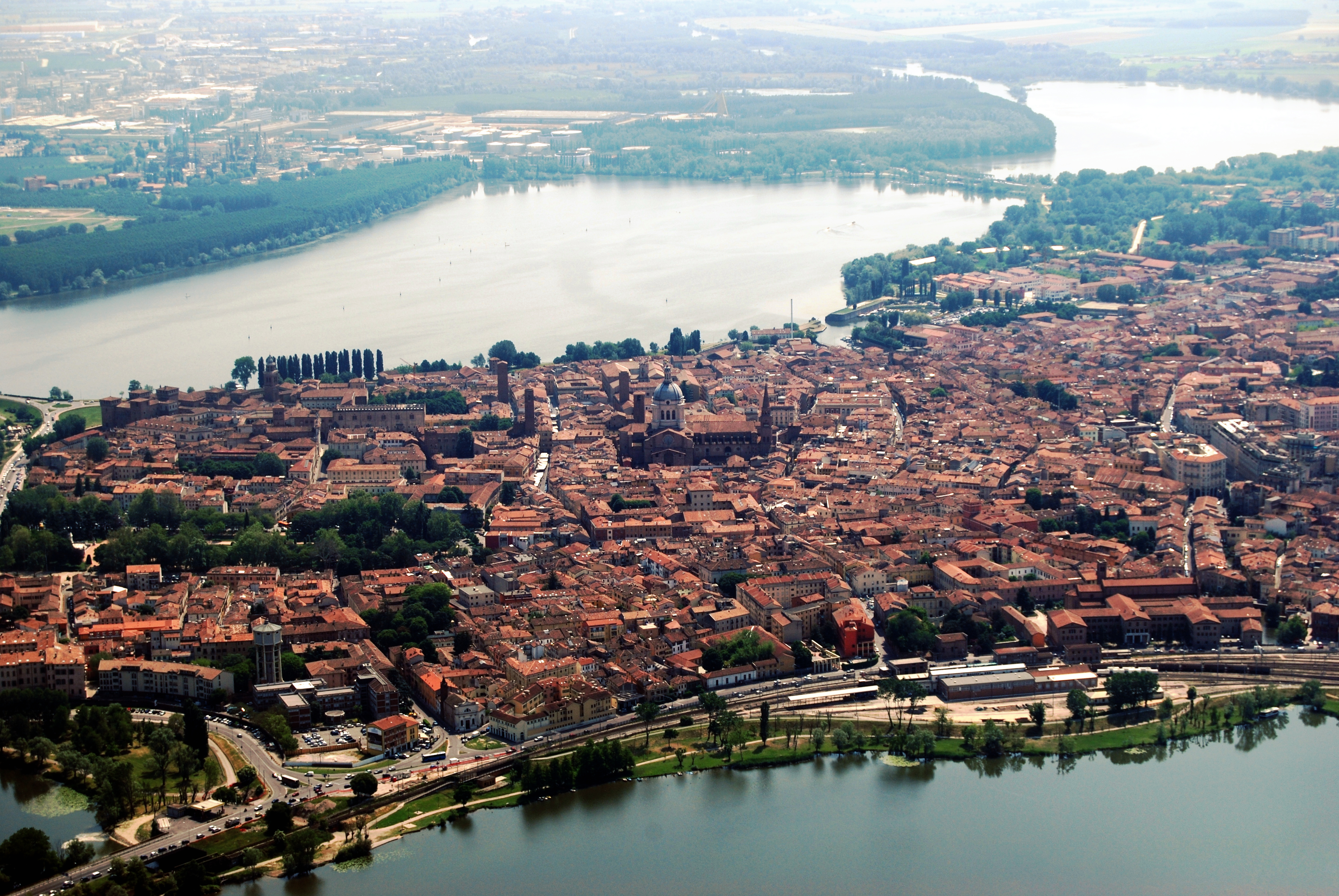 Aerial view of Mantova